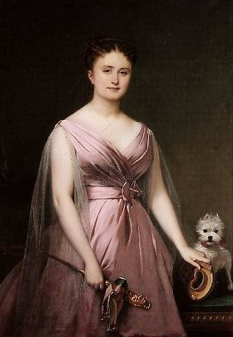 Alexis-Joseph Pérignon, Hortense Schneider in the Part of Madness (1868), Oil on canvas, Castle of Compiègne, musée du Second Empire (France). Hortense Schneider is the creator of the leading roles of Jacques Offenbach's operettas La Belle Hélène and La Grande-Duchesse de Gerolstein.